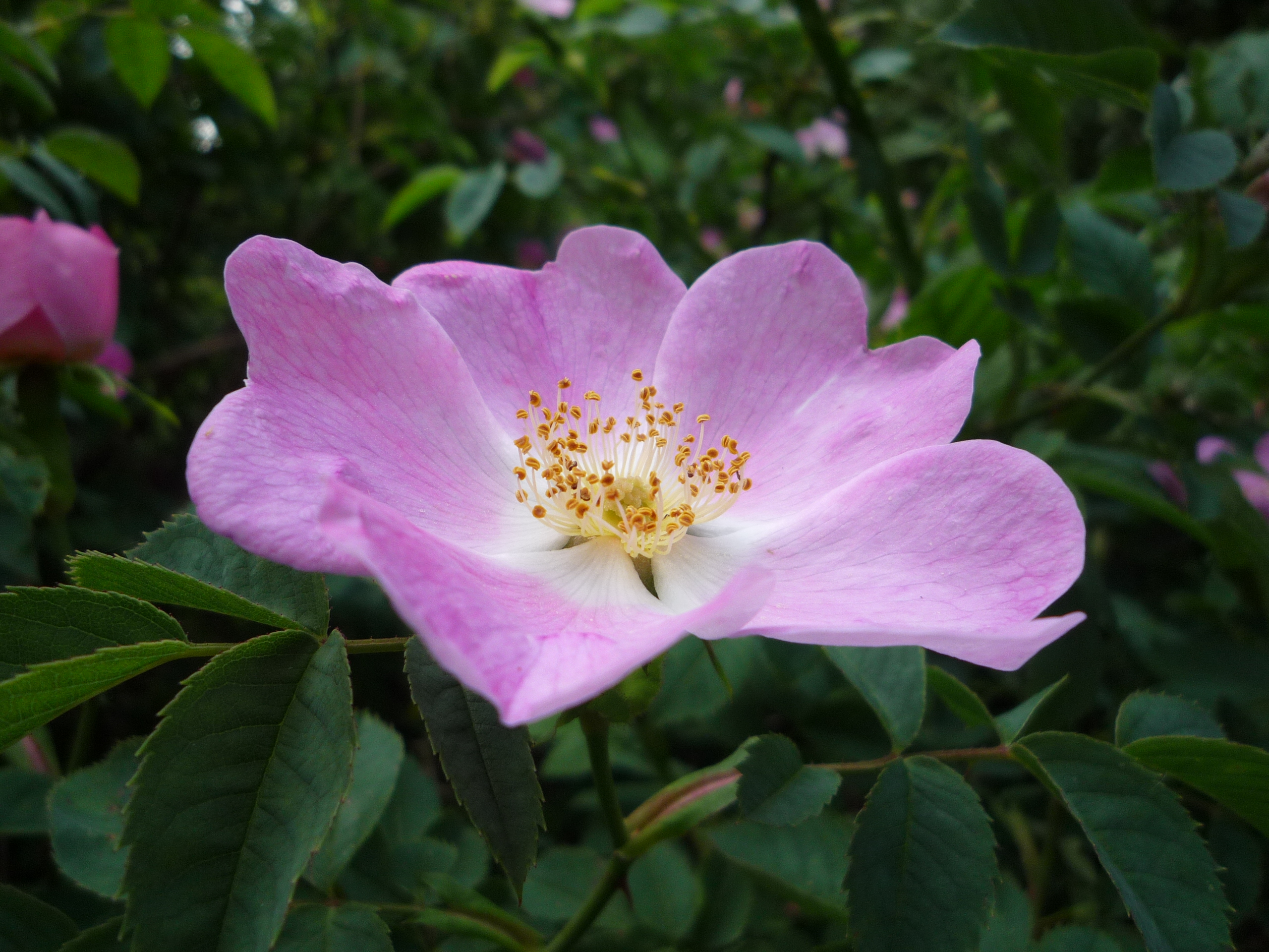 Dog Rose (Rosa canina), Purwell Ninesprings Nature Reserve, Hitchin, Hertfordshire, 17 June 2012